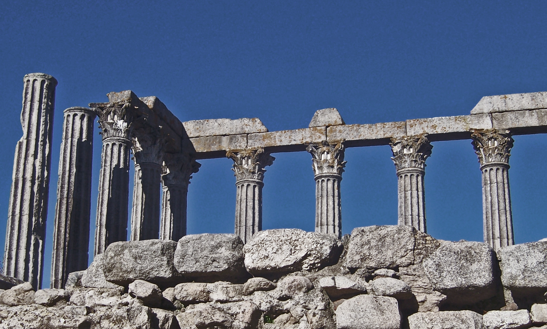 The Diana's temple, on Evora.